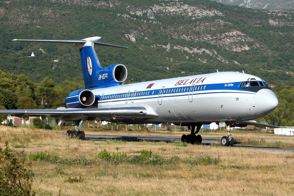 Belavia Tupolev Tu-154M at Tivat Airport